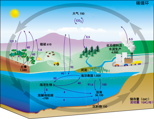 This carbon cycle diagram shows the storage and annual exchange of carbon between the atmosphere, hydrosphere and geosphere in gigatons - or billions of tons - of Carbon (GtC). Burning fossil fuels by people adds about 5.5 GtC of carbon per year into the atmosphere.